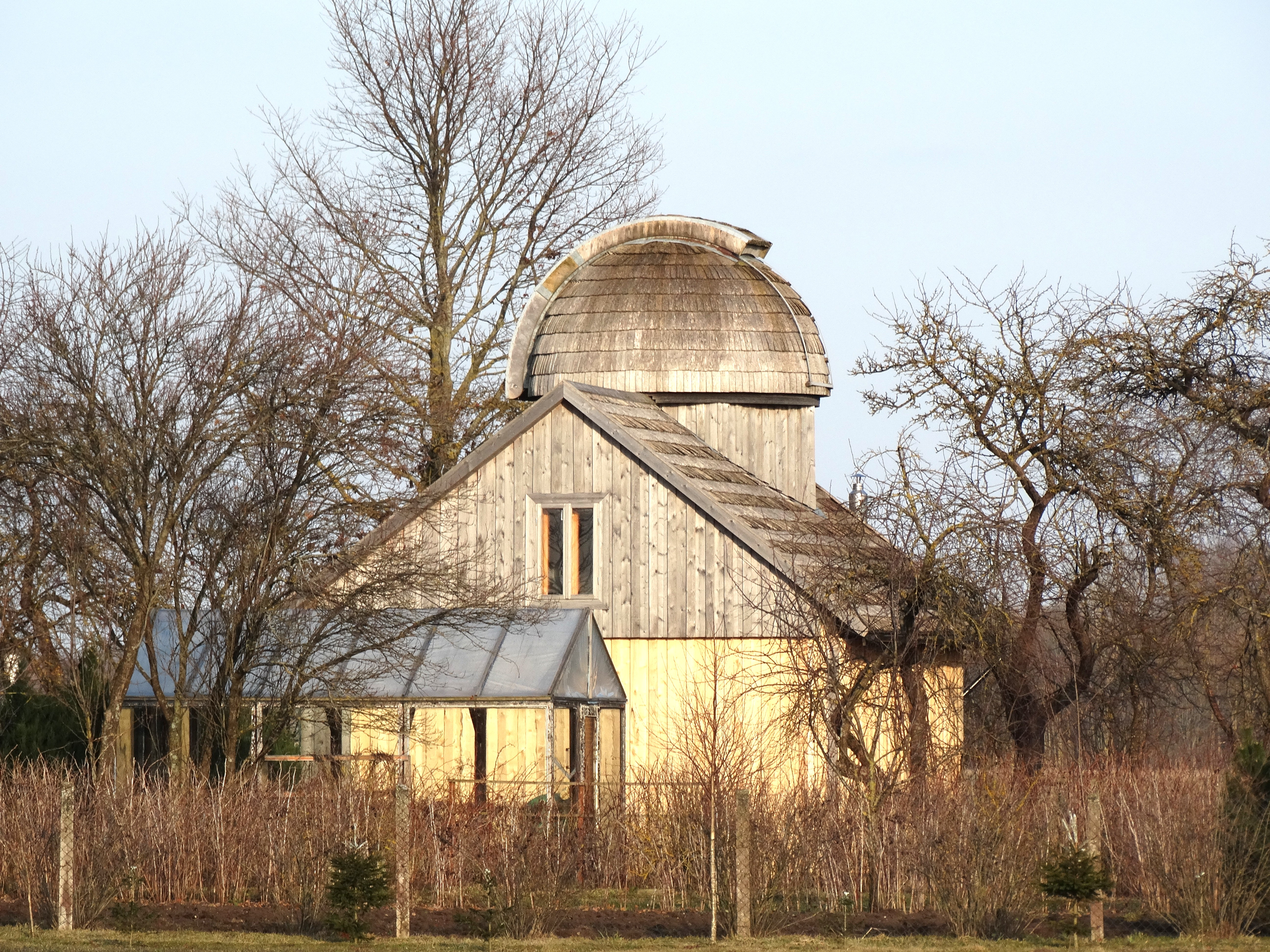 Medininkai, domed structure, Jurbarkas district, Lithuania